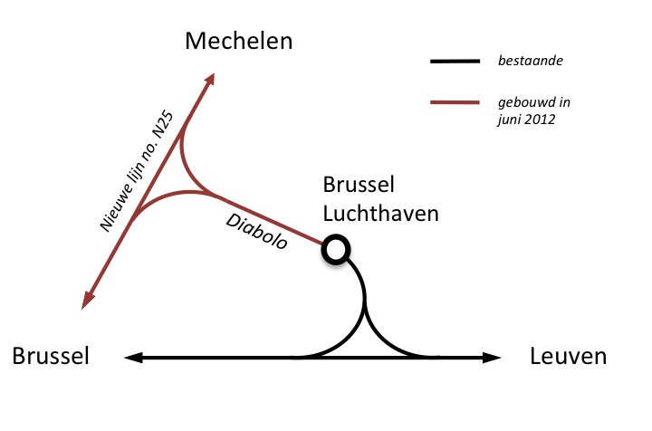 Plan van de Diabolo-project